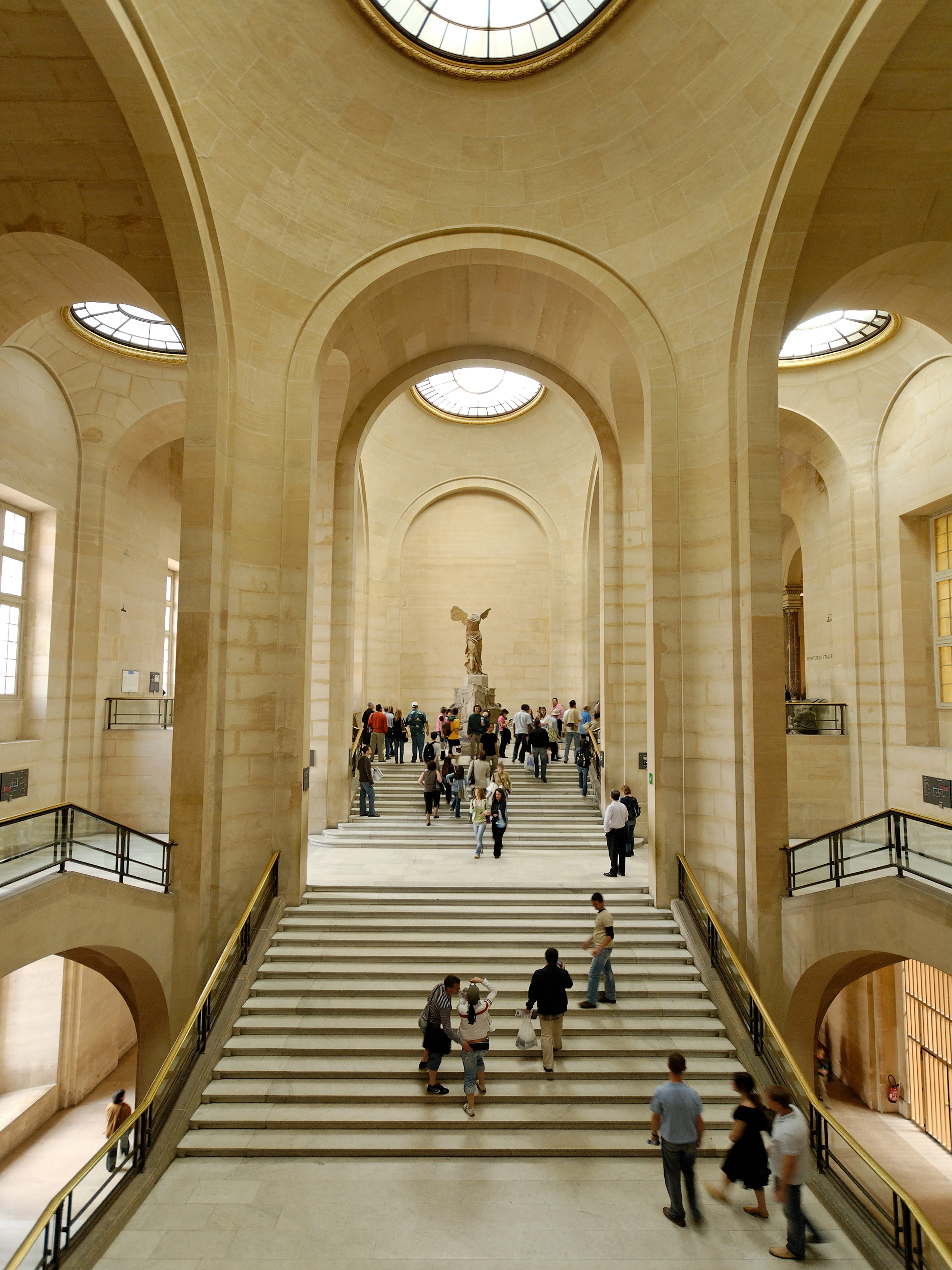 Daru Staircase with the winged Nike Victory of Samothrace, Denon wing, Louvre Museum.